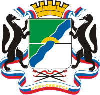 Novosibirsk, coat of arms (1993)